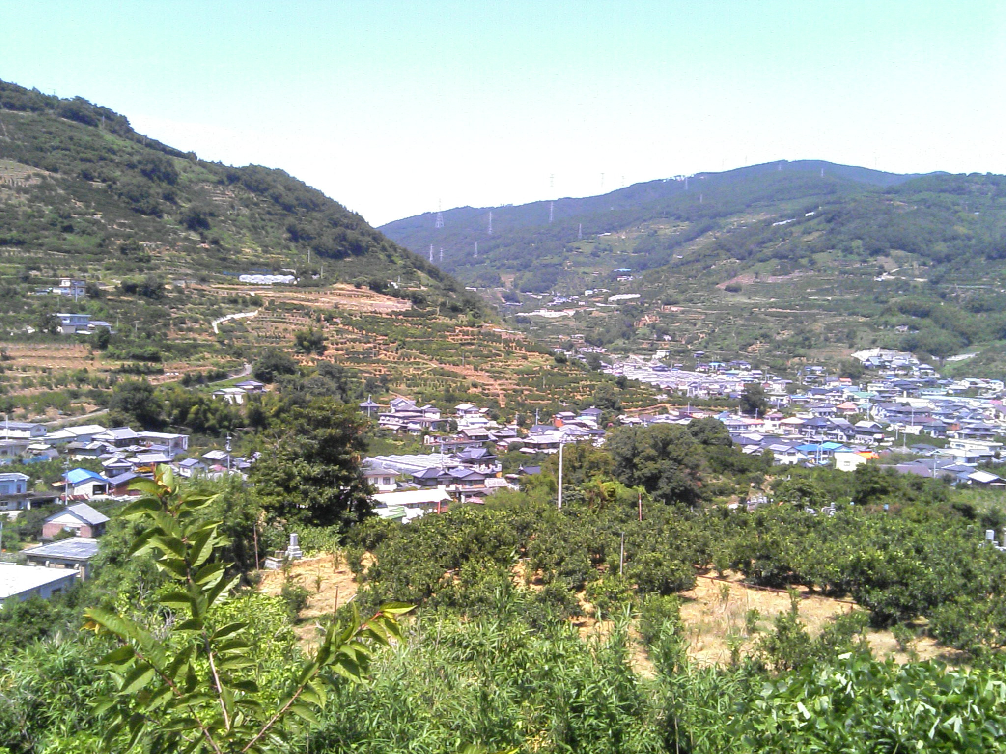 The hills of Honai, Yawatahama, Ehime